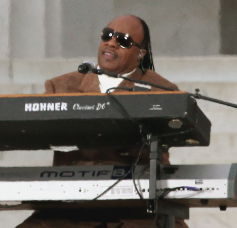 Usher and Shakira at the Obama inauguration, 2009